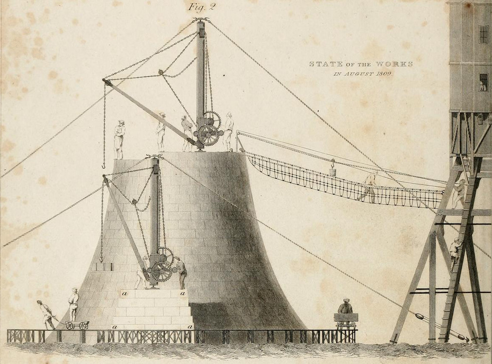 Shows the lighthouse under construction including half of the temporary beacon that was constructed alongside to accommodate the workers and serve as a temporary lighthouse.